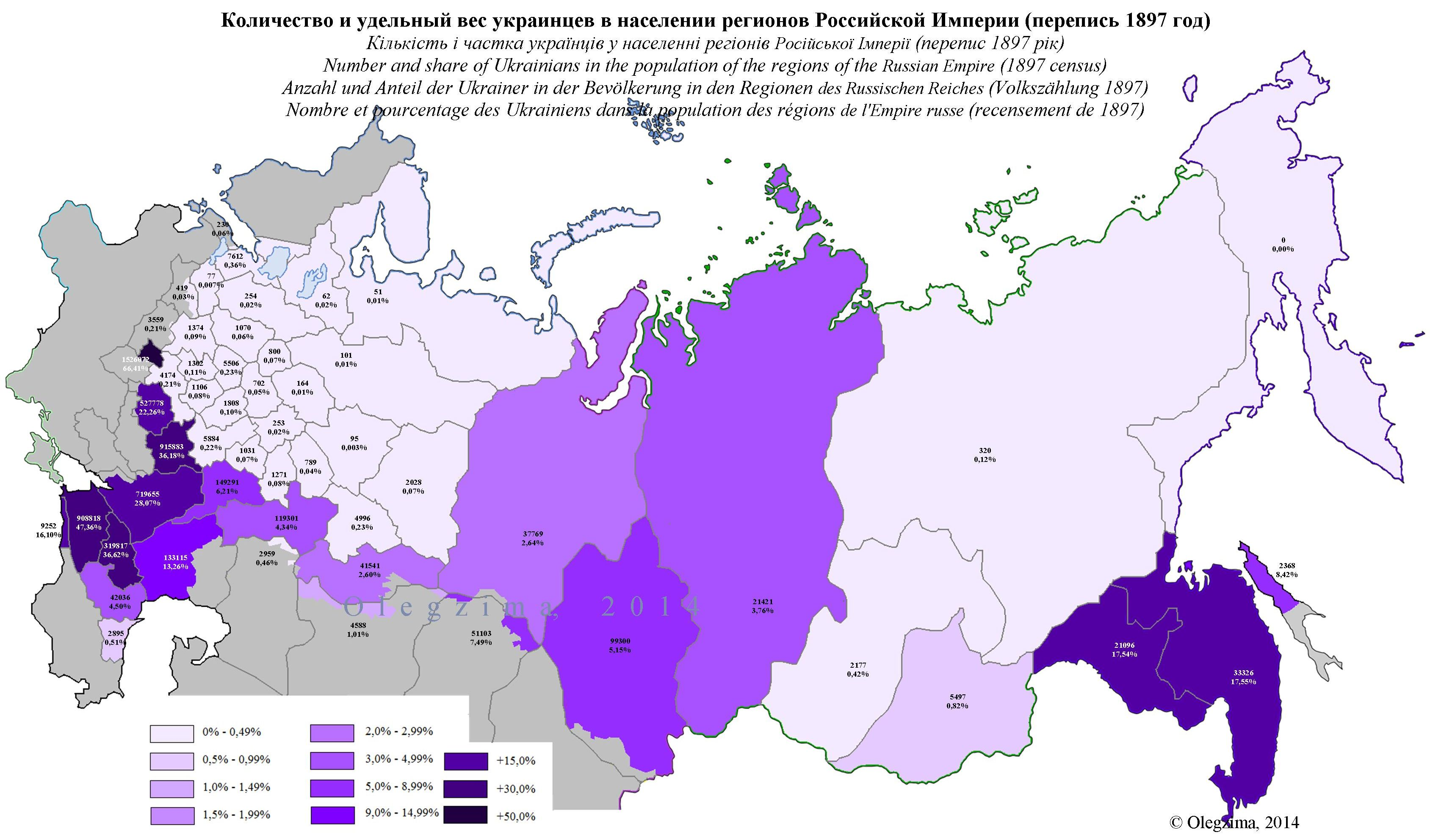 Number and share of Ukrainians in the population of the regions of the Russian Empire (1897 census)